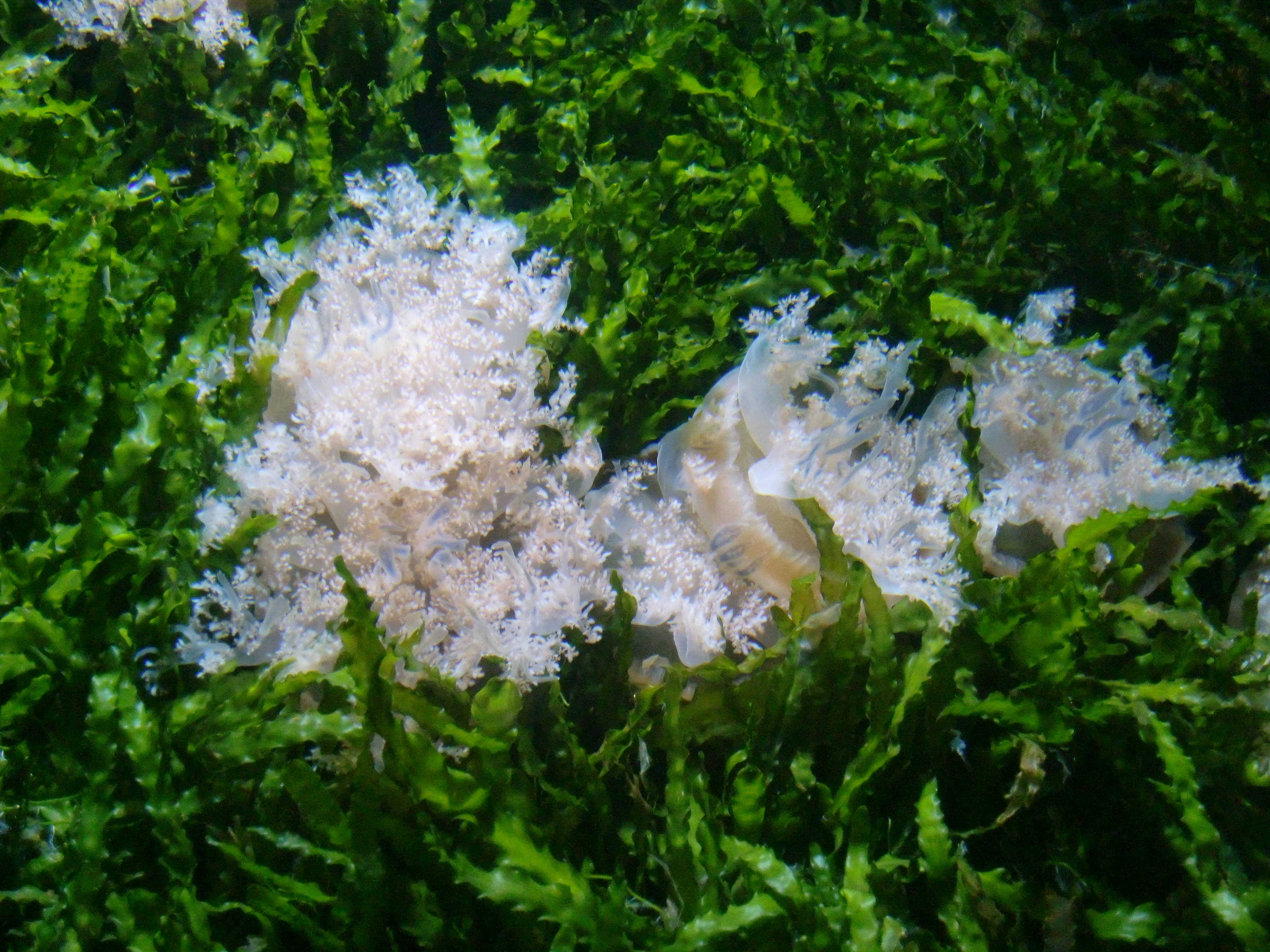 Upside Down Jelly fish. With thanks to the London Aquarium for allowing photography